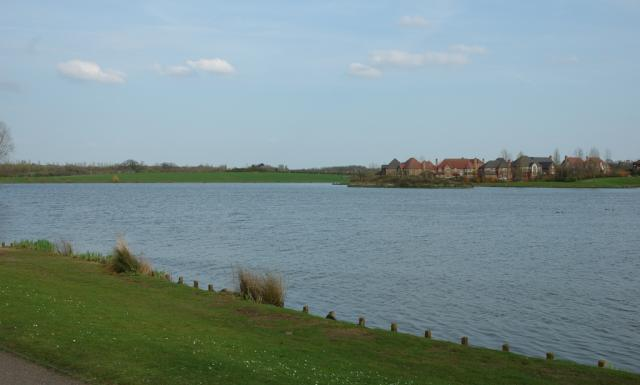 View of Furzton from Shenley Lodge bank of the lake.